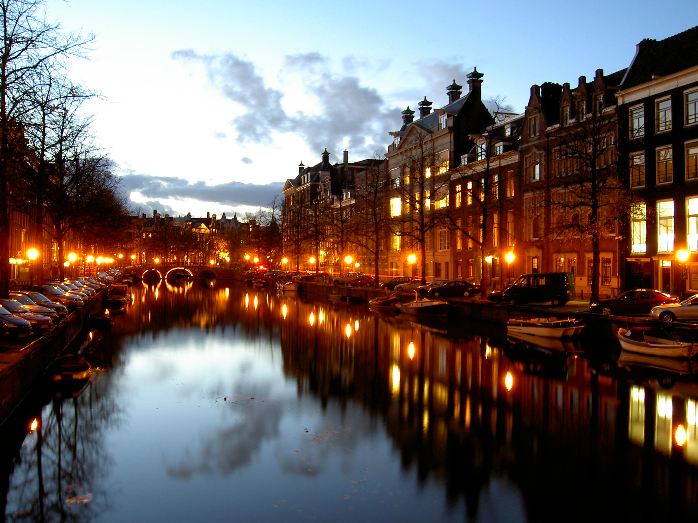 View of Keizersgracht, Amsterdam